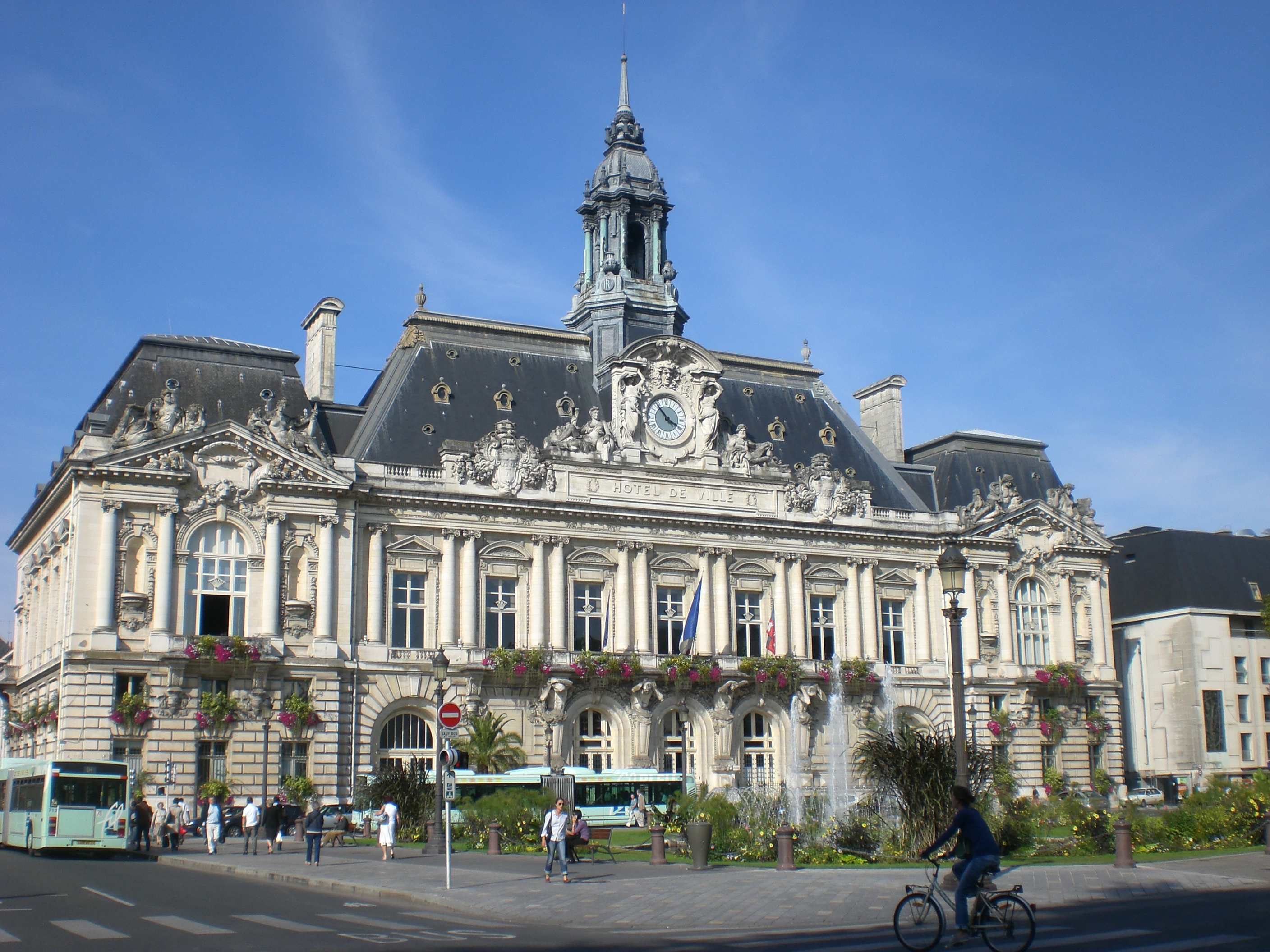 Town Hall, Tours